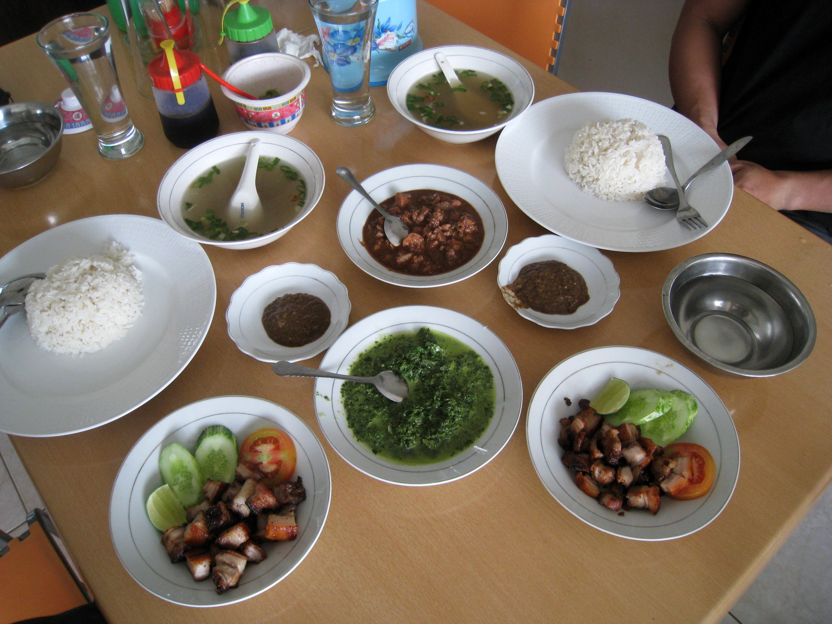 Batak cuisine, the saksang pork stew cooked in its blood and spices, and panggang grilled pork, with sayur daun ubi (singkong) tumbuk or pounded cassava leaf vegetables and broth soup.